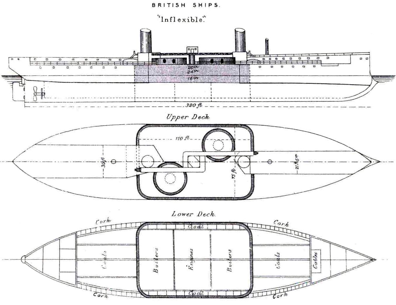 Diagrams showing right elevation, deck plan and below-decks plan of British ironclad battleship HMS Inflexible.